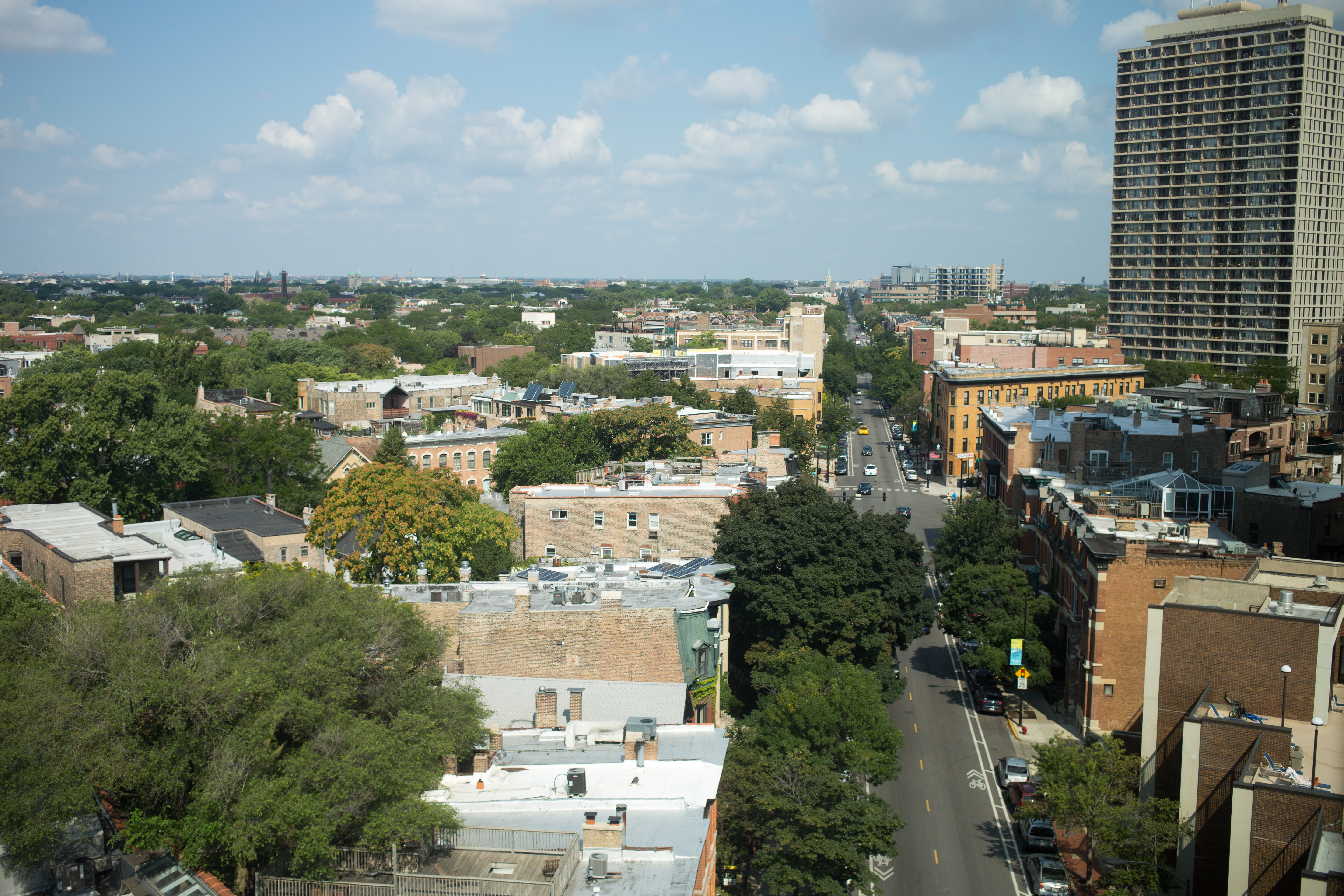 Lincoln Avenue, Chicago 2015